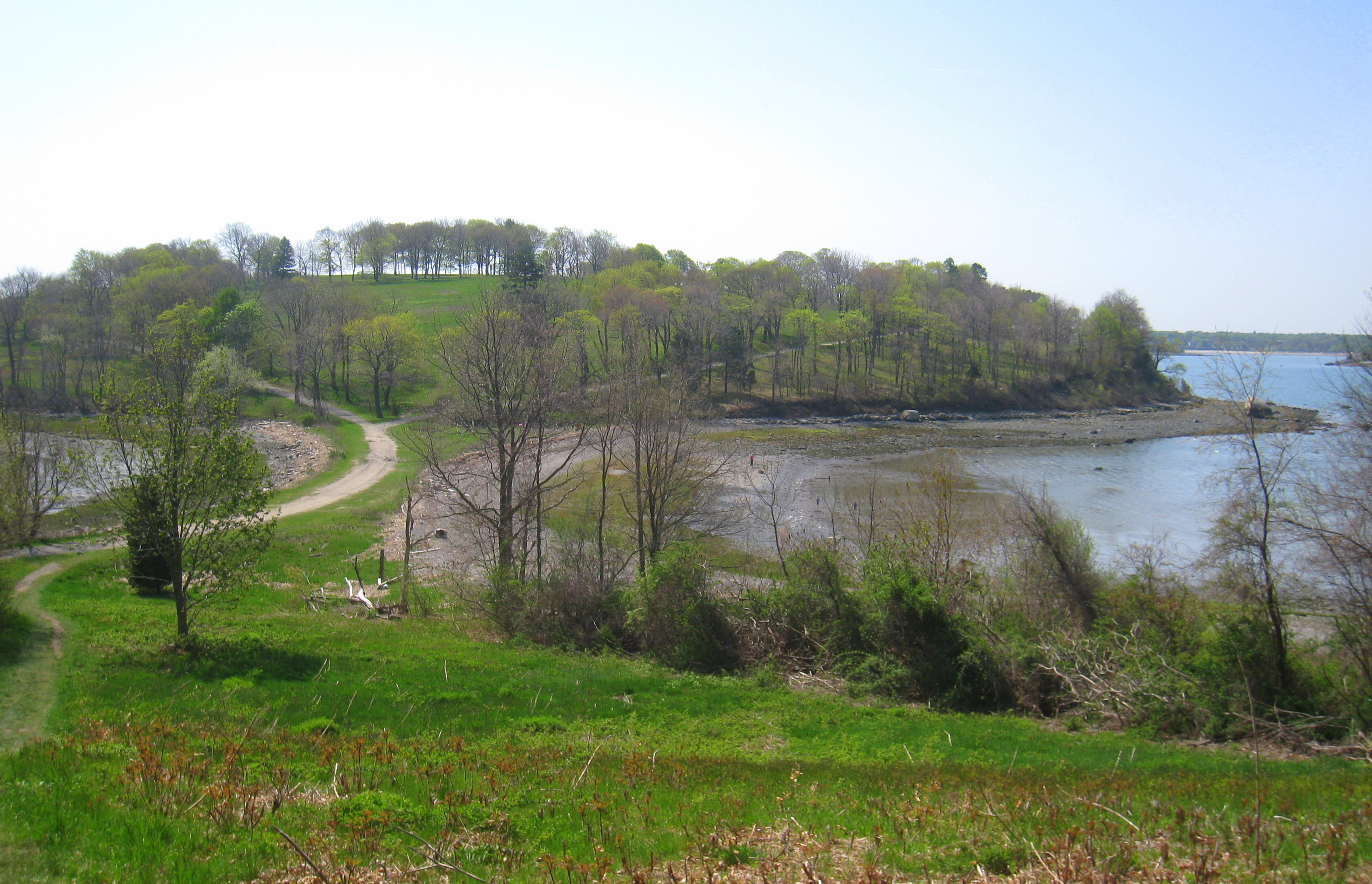 World's End, Hingham, Massachusetts, USA. Landscaped by Frederick Law Olmsted; now maintained by The Trustees of Reservations.